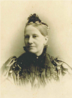 Photo of Kate Lupton, Baroness von Schunck as appears in J.G.K. Nevett's (publisher) book - A Regal Yorkshire Family Tree (2020) - Author: M.E. Reed IBSN: 978-0-648 8626-0-4